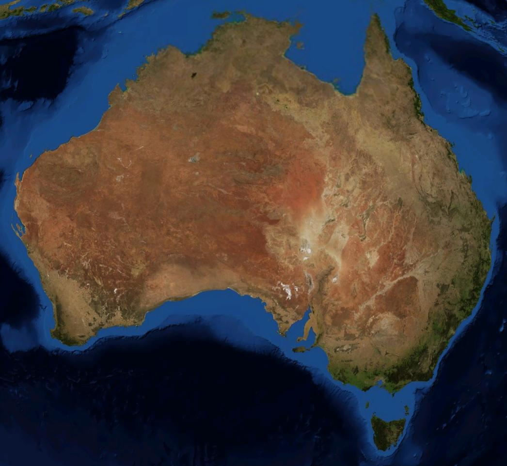 This is an image of Australia from space, made with World Wind using Landsat 7 data.